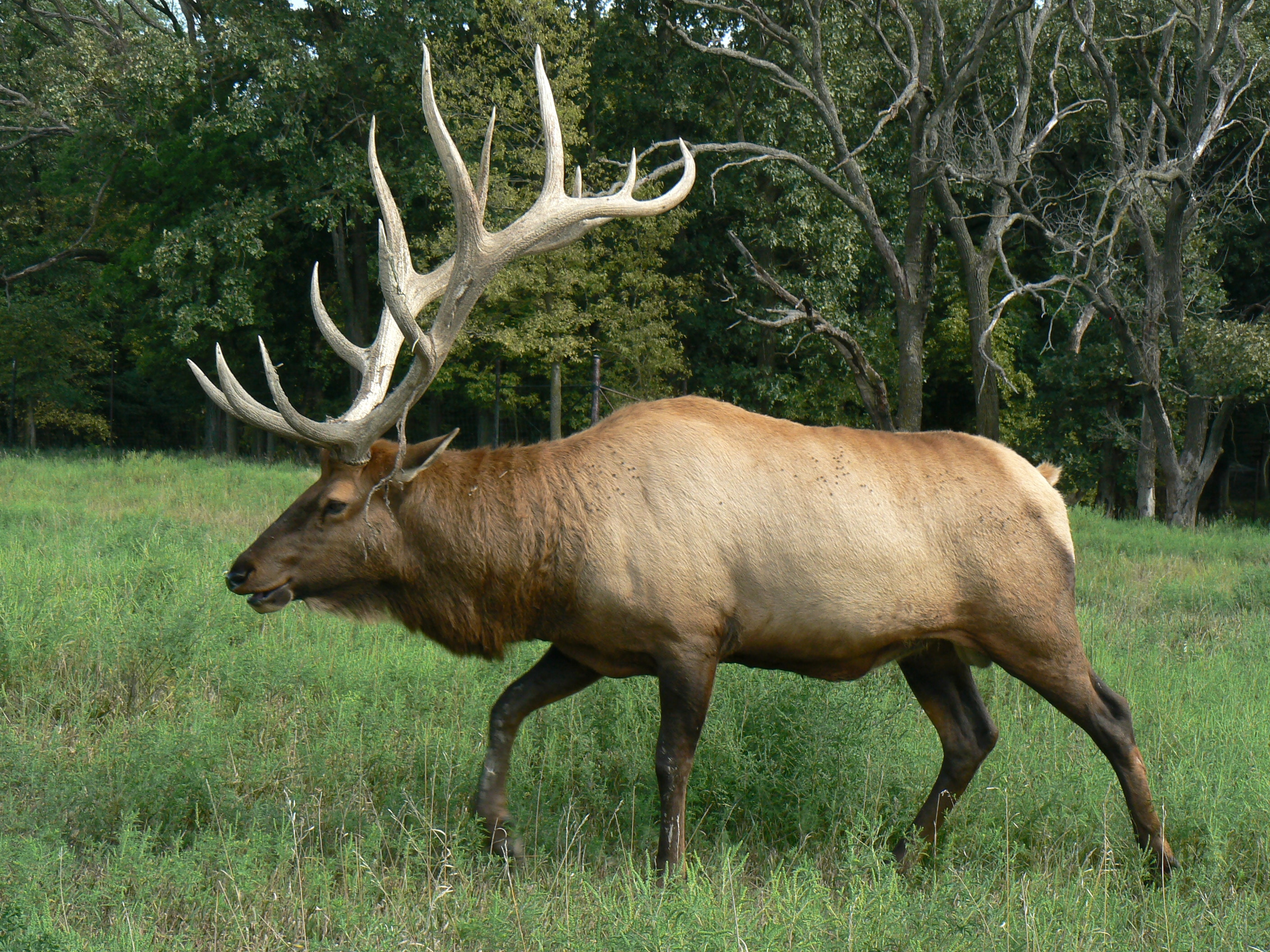 Bull elk at Lee G. Simmons Conservation Park, Ashland, Nebraska